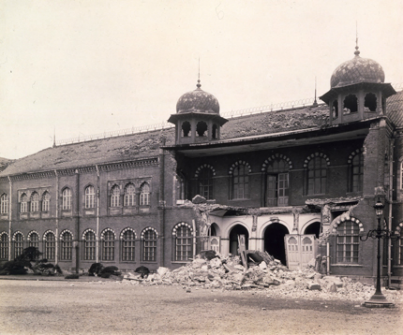 A photograph of the facade of the original main building of the Tokyo National Museum after the 1923 Great Kanto Earthquake.